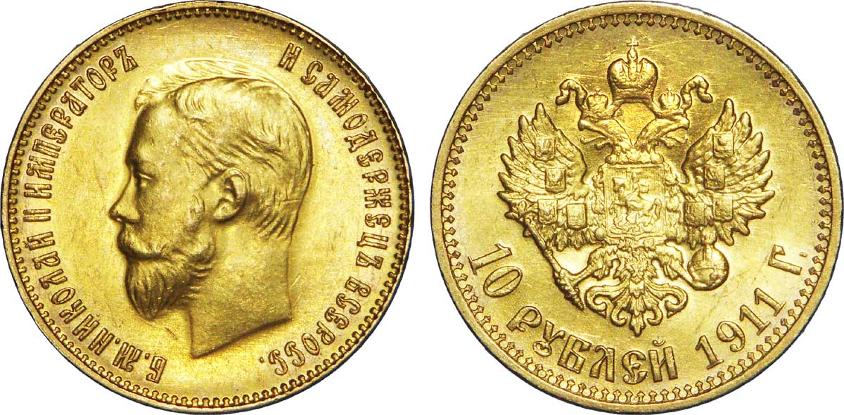 10 Roubles or Nicolas II, 1911